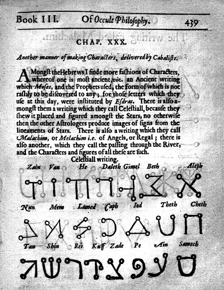 Heinrich Cornelius Agrippa's Celestial Alphabet, from 'Of Occult Philosophy', English 1651 edition (Latin original from 1531)